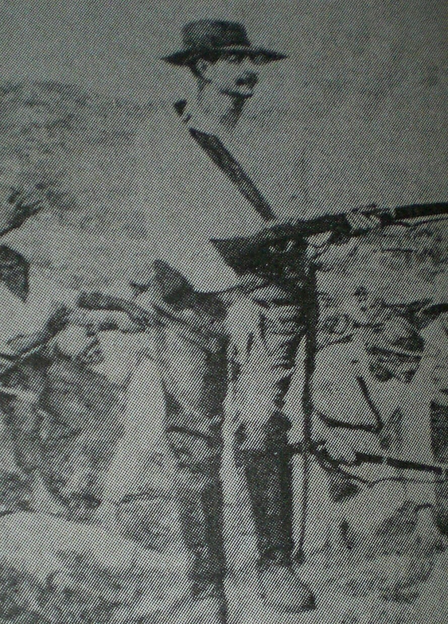 Painting of Juan Vicente Gómez at the battle of Carúpano in 1902.